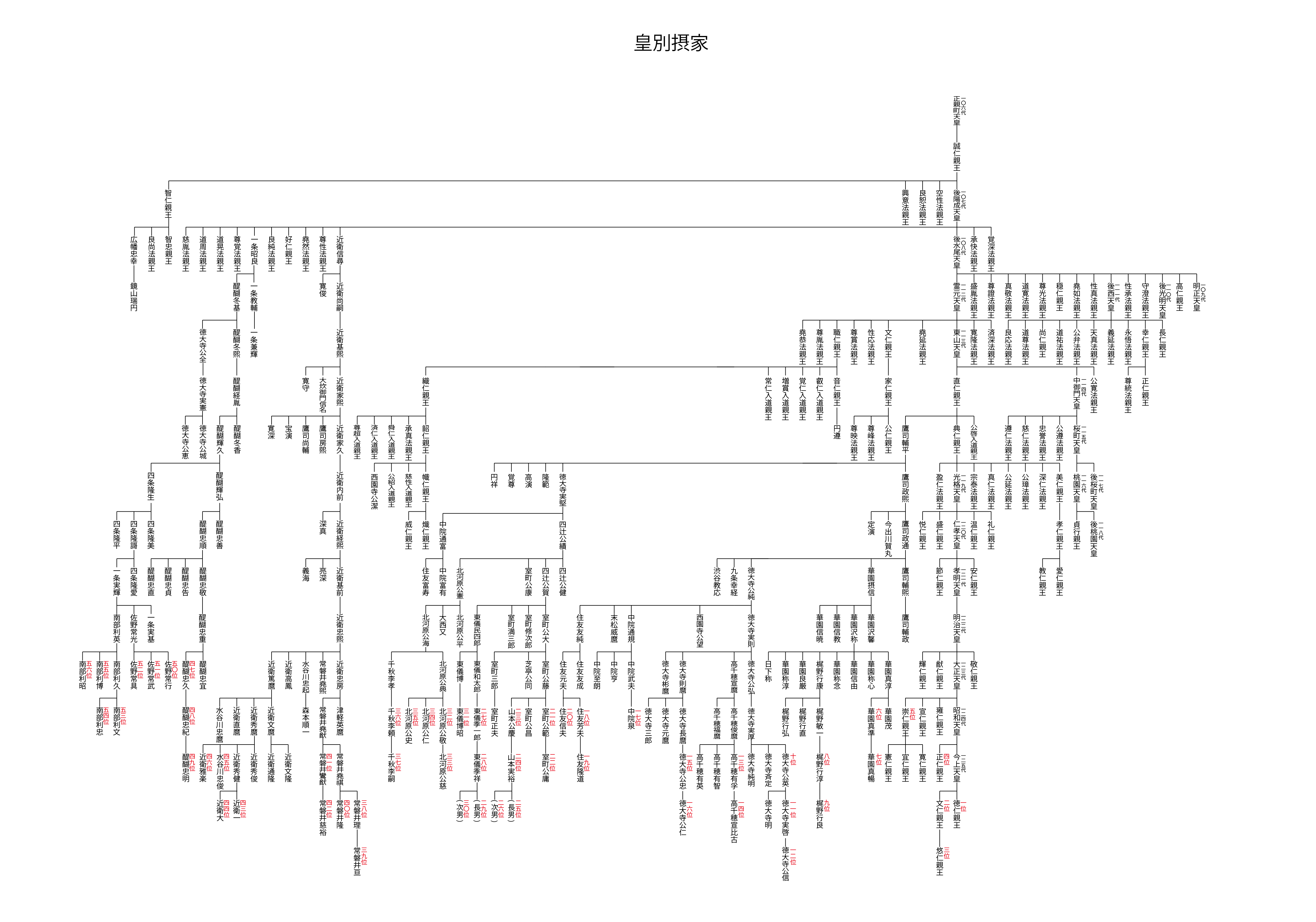 The family tree of Japanese Imperial family male members who adopted family names of Fujiwara clan.